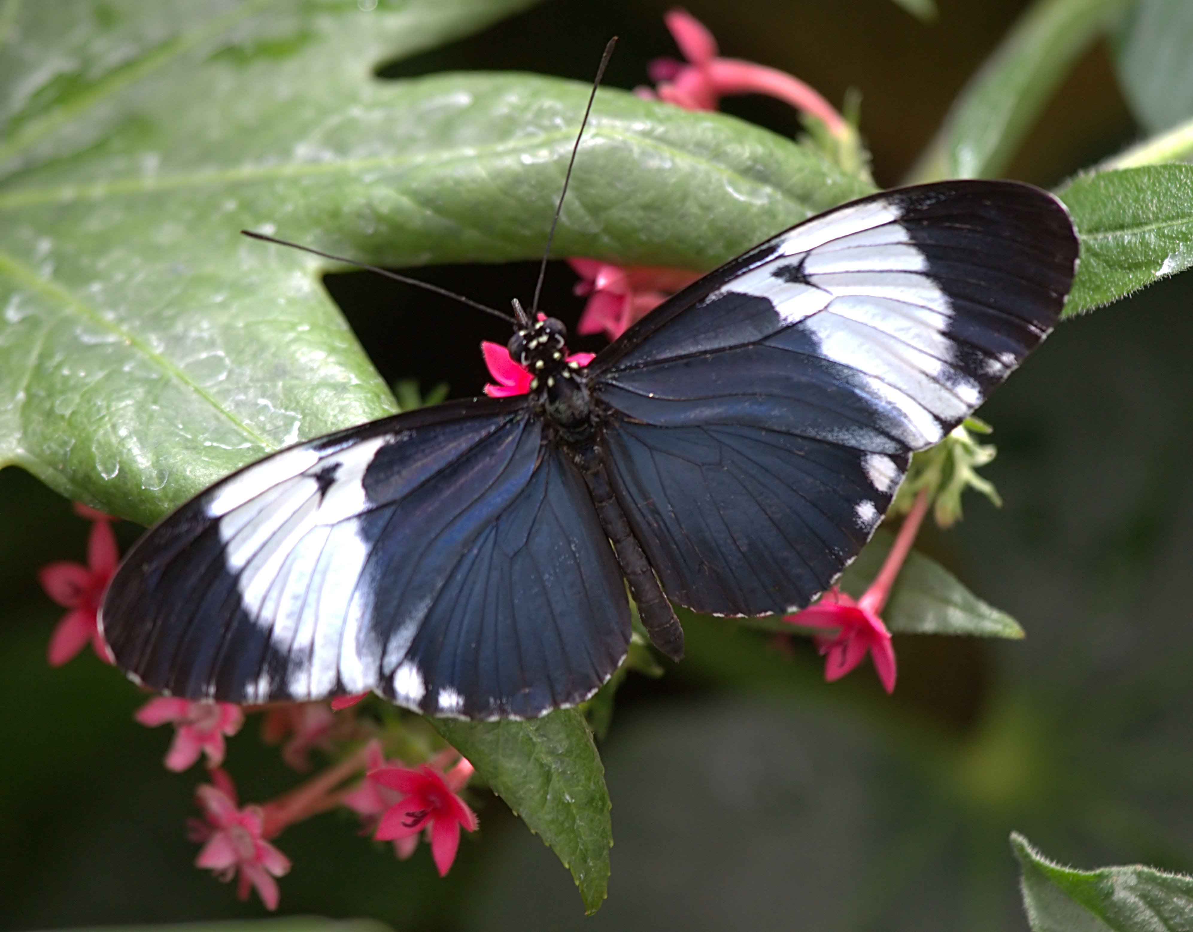 Heliconius cydno - taken at Krohn Conservatory.